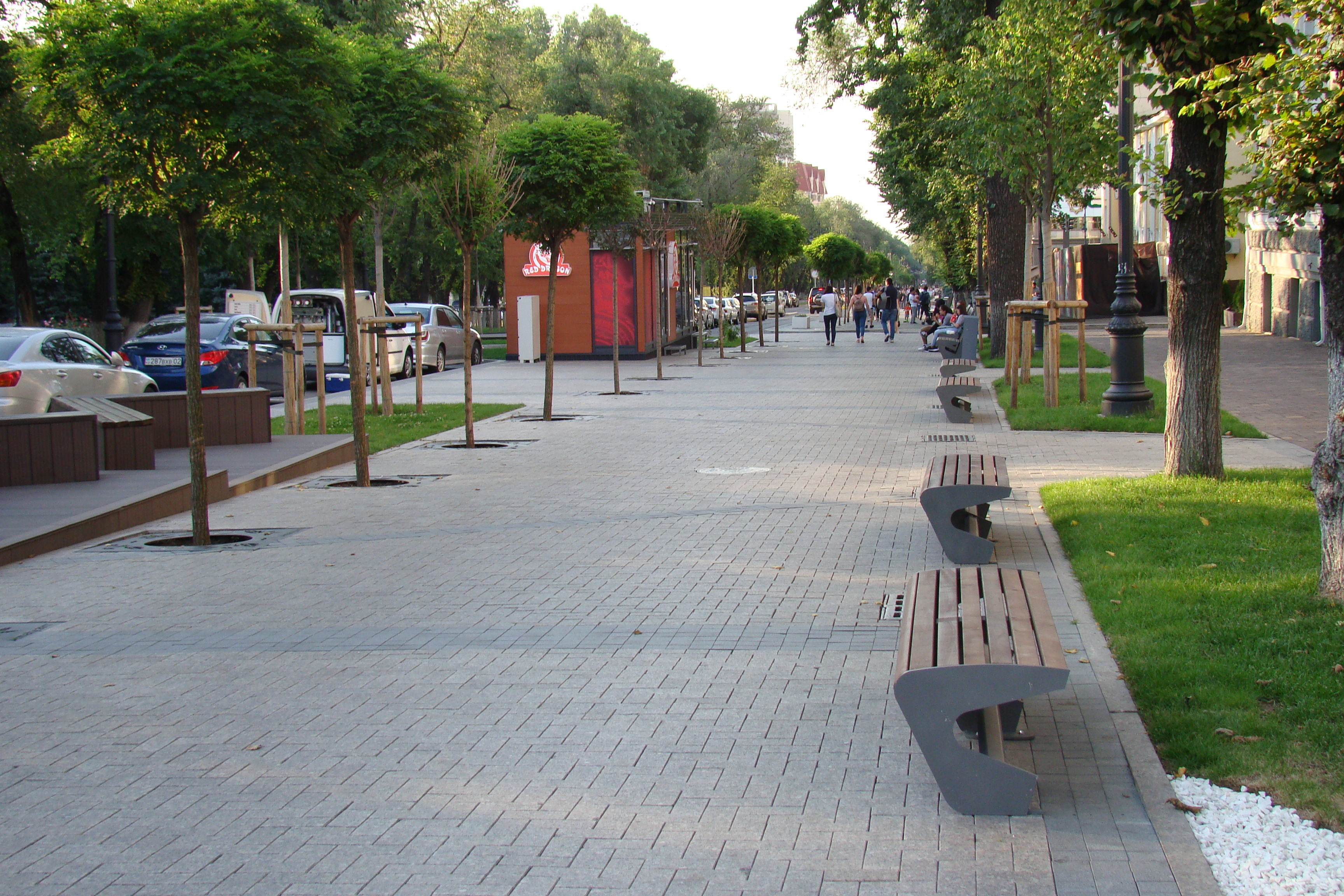 Photo of a pedestrian zone of Panfilov Steet in Almaty.